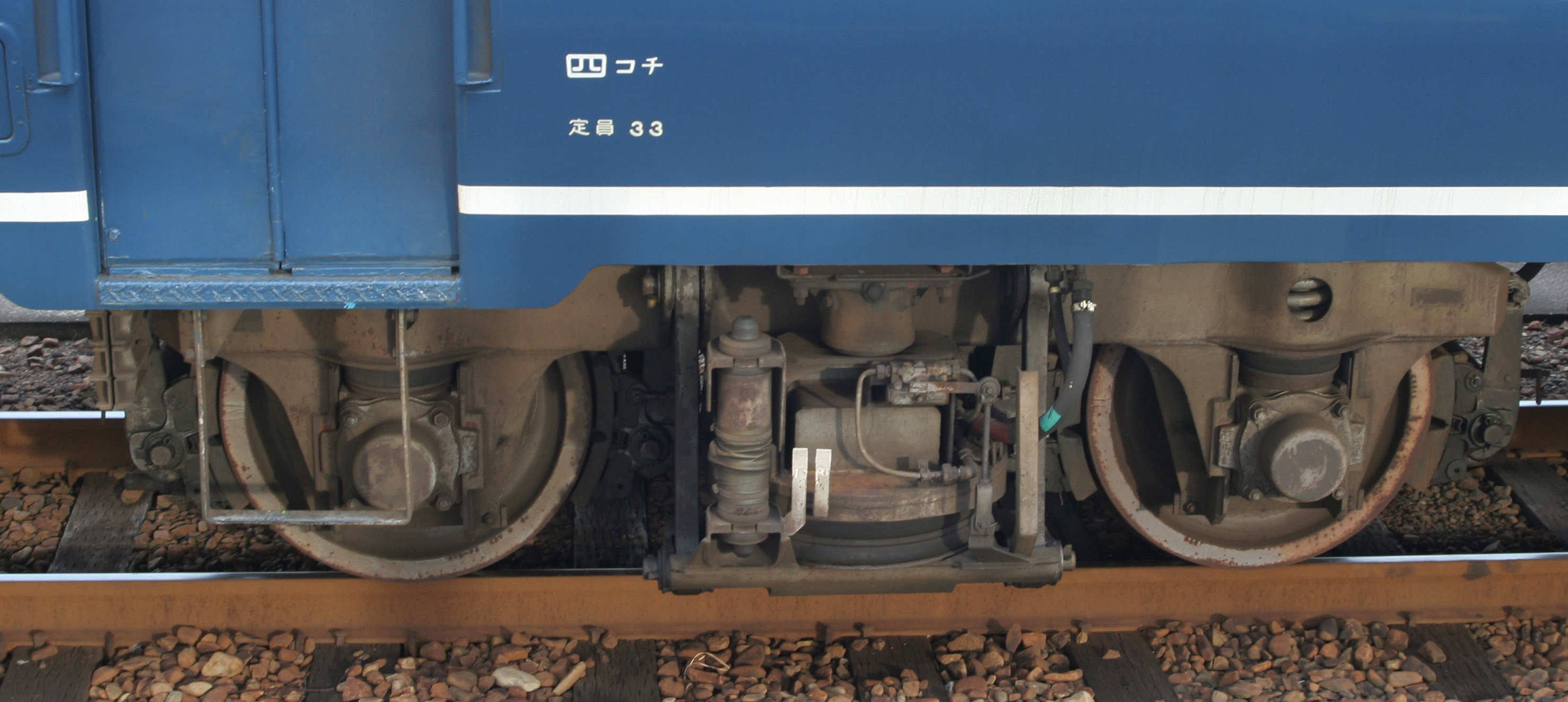 Shikoku Railway PC surofu12-3 TR217